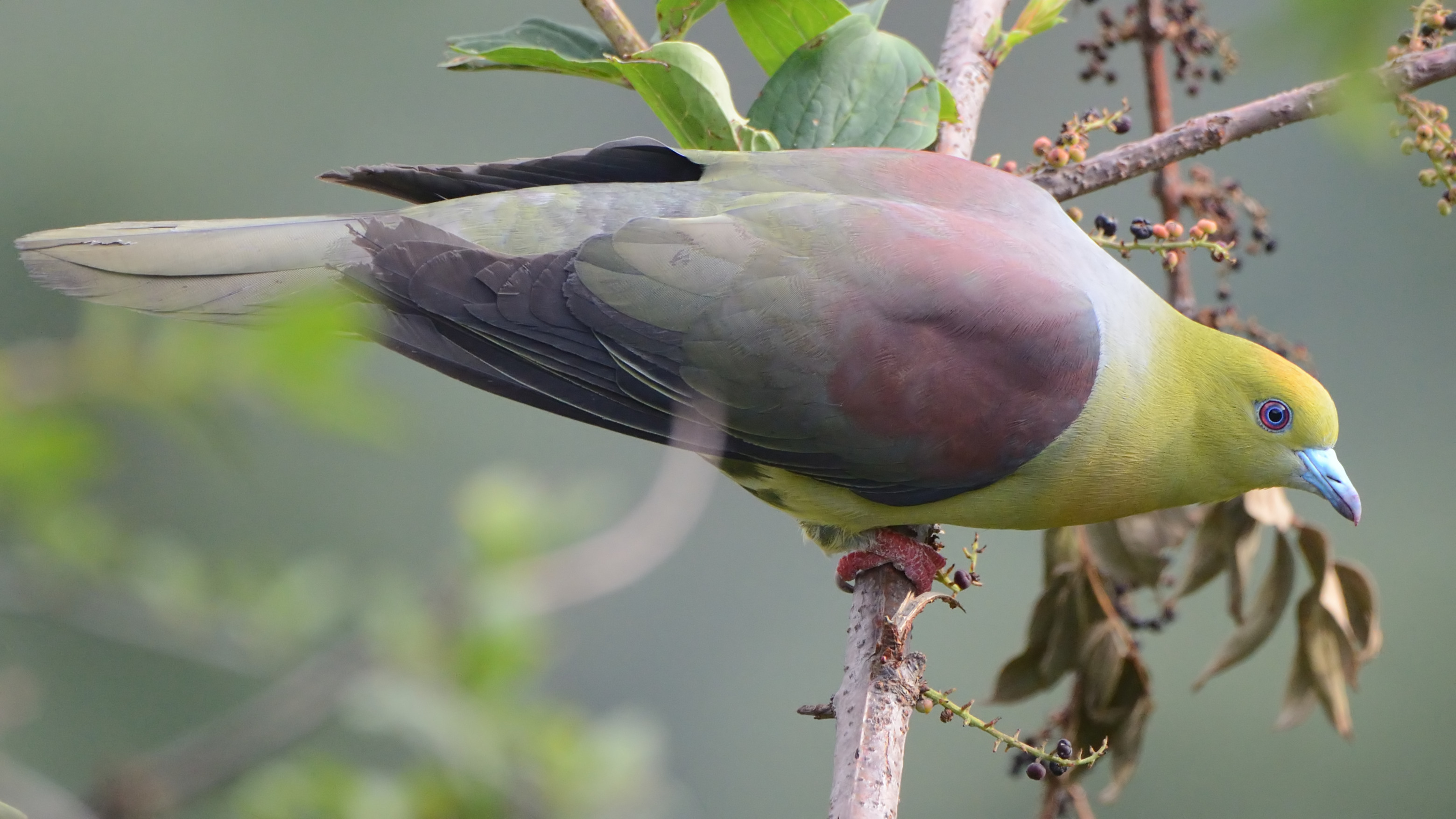 Wedge-tailed Pigeon (Treron sphenurus) at Dhanaulti, India